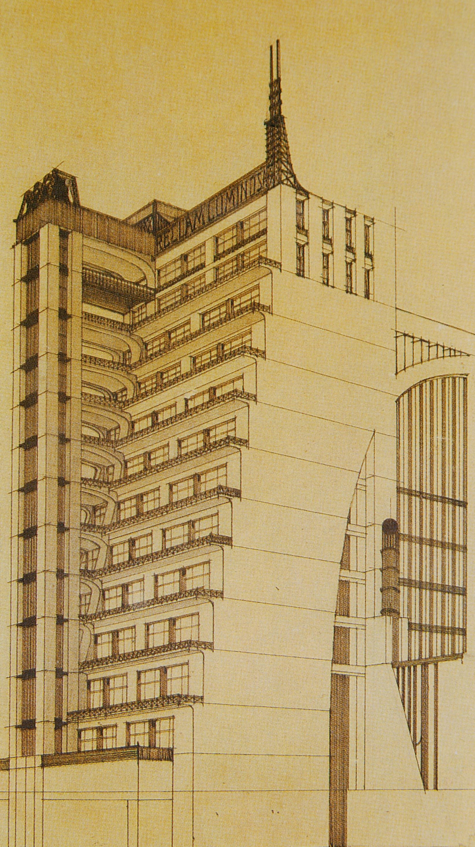 Building design.